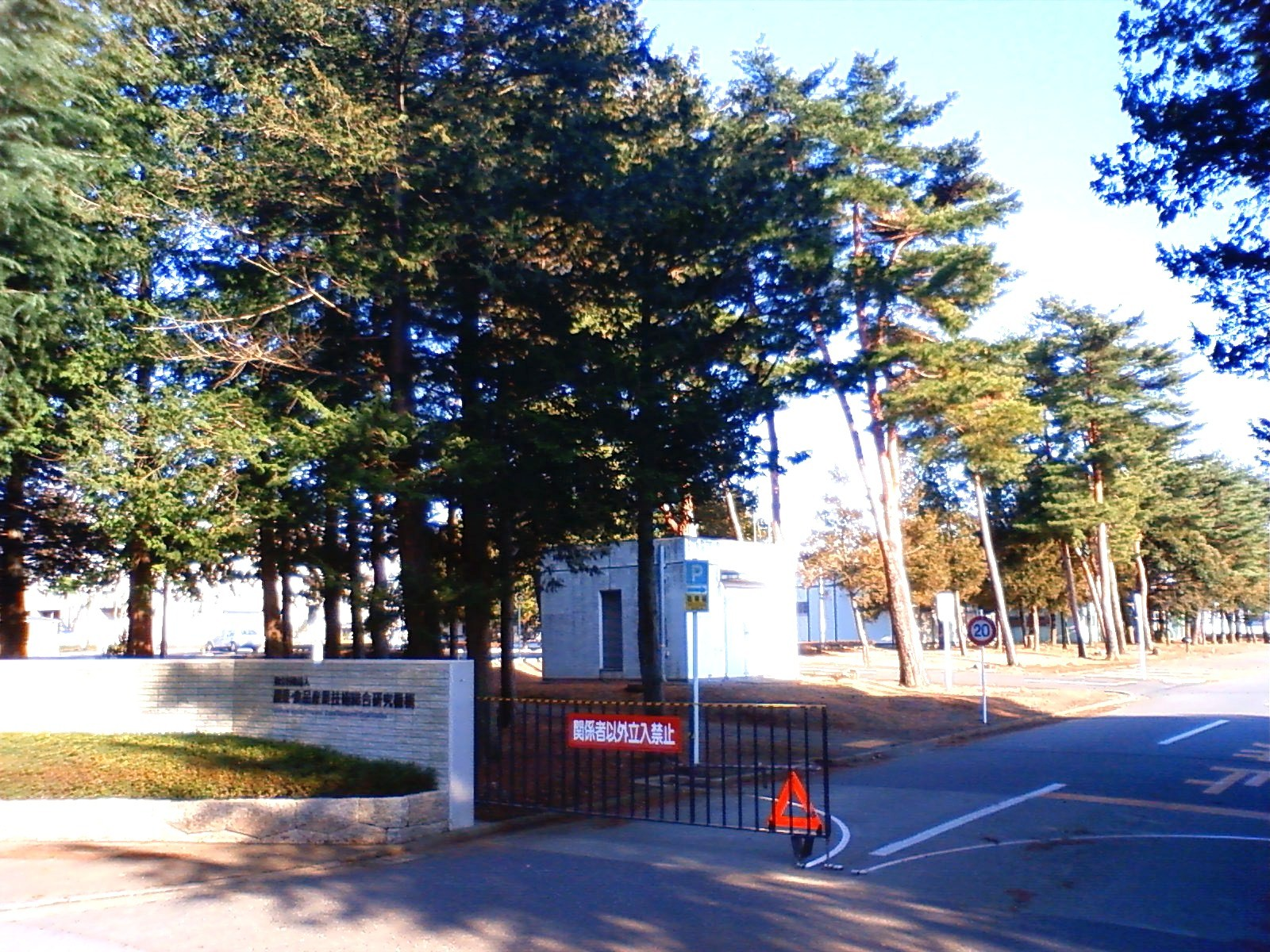 This is an entrance of National Agriculture and Food Research Organization in Japan.